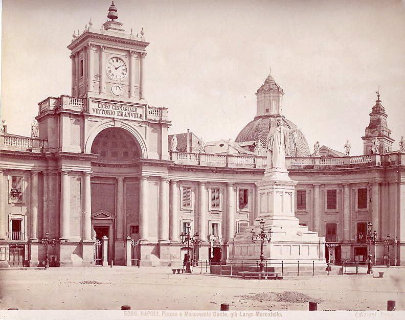 Giacomo Brogi (1822-1881) - "Naples. Mercatello square and monument, formerly Largo Mercatello" (today Piazza Dante). Catalogue # 5006.